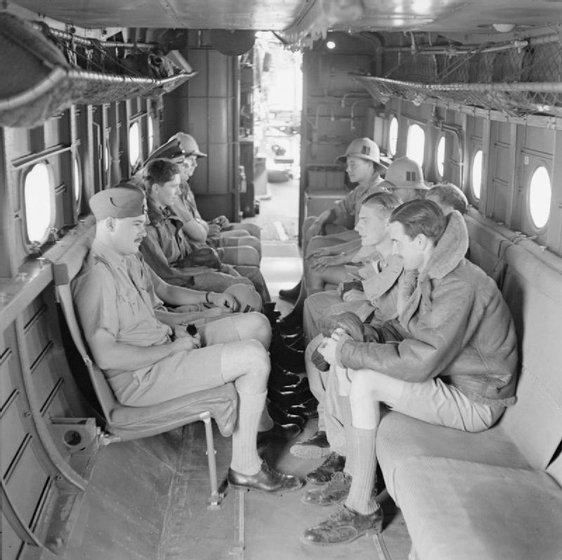 Royal Air Force Operations in the Middle East and North Africa, 1939-1943. RAF passengers bound for various locations in the Western Desert, sitting in a Bristol Bombay of No. 216 Squadron RAF based at Heliopolis, Egypt